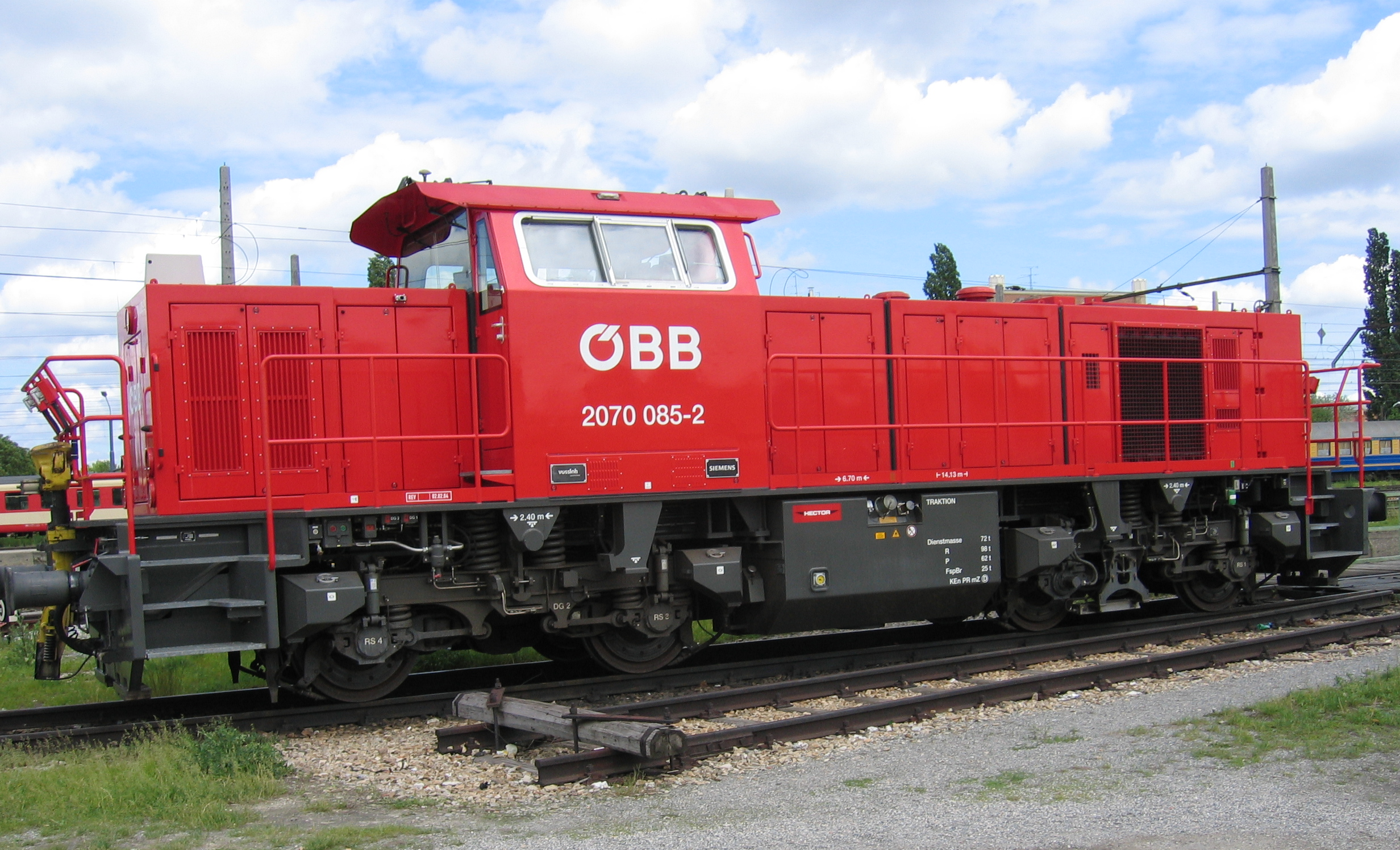 ÖBB shunting engine, class 2070, on a siding at Südbahnhof Wien (Southern Railway Station Vienna). The OEM name of this vehicle is Vossloh / MaK 800 BB